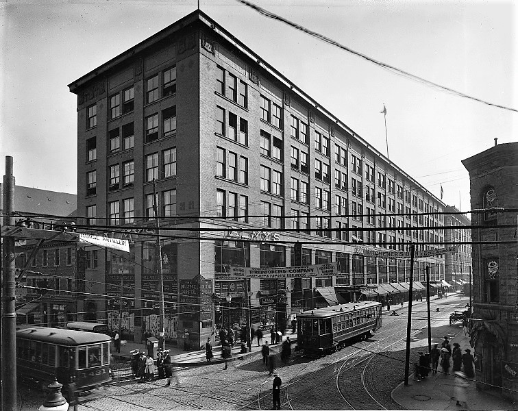 Photograph, Corner Bleury and St. Catherine Streets, Montreal, QC, 1916, Silver salts on glass - Gelatin dry plate process - 20 x 25 cm